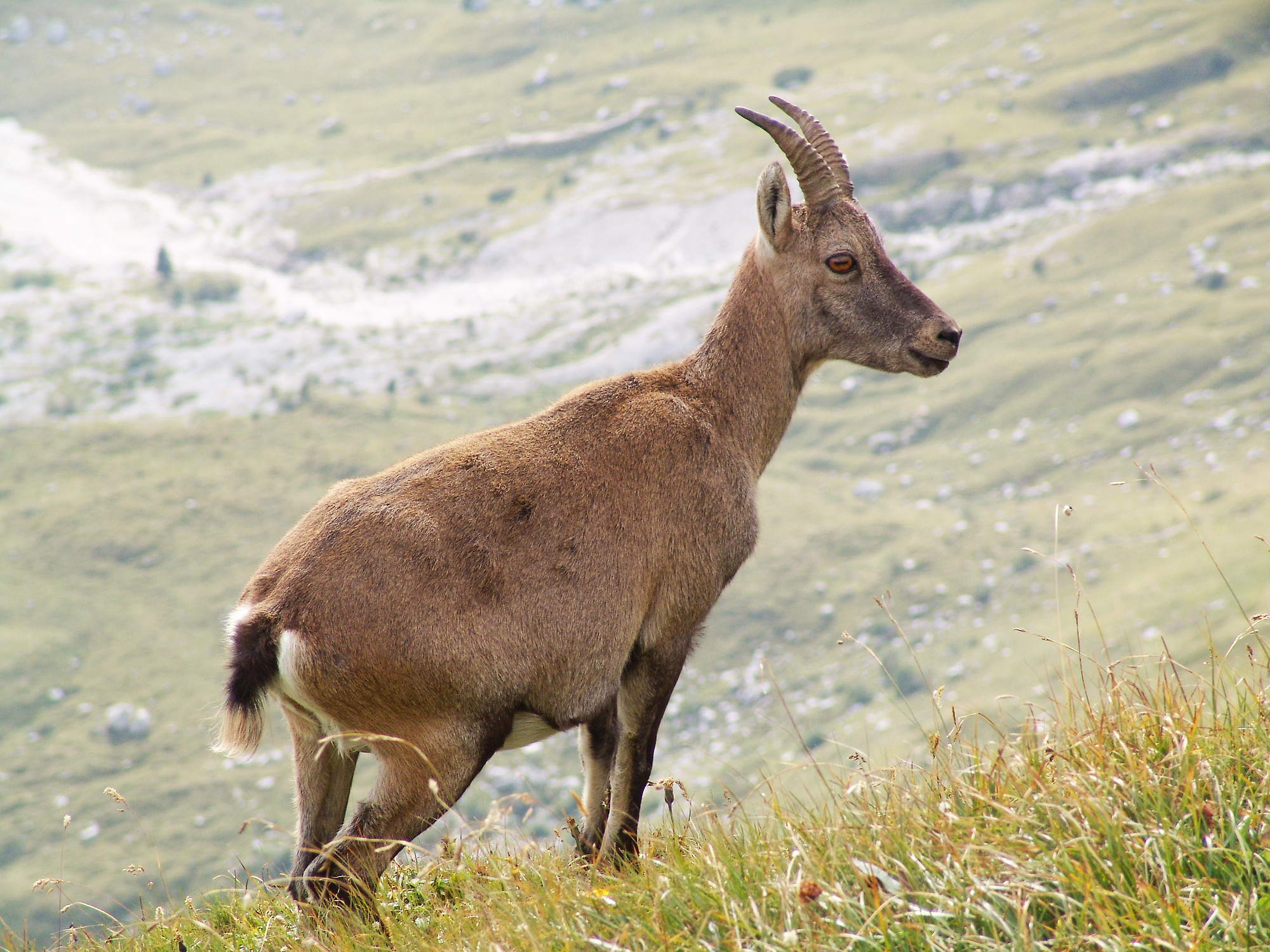 Alpine Ibex, picture taken in the Julian Alps / Slovenia